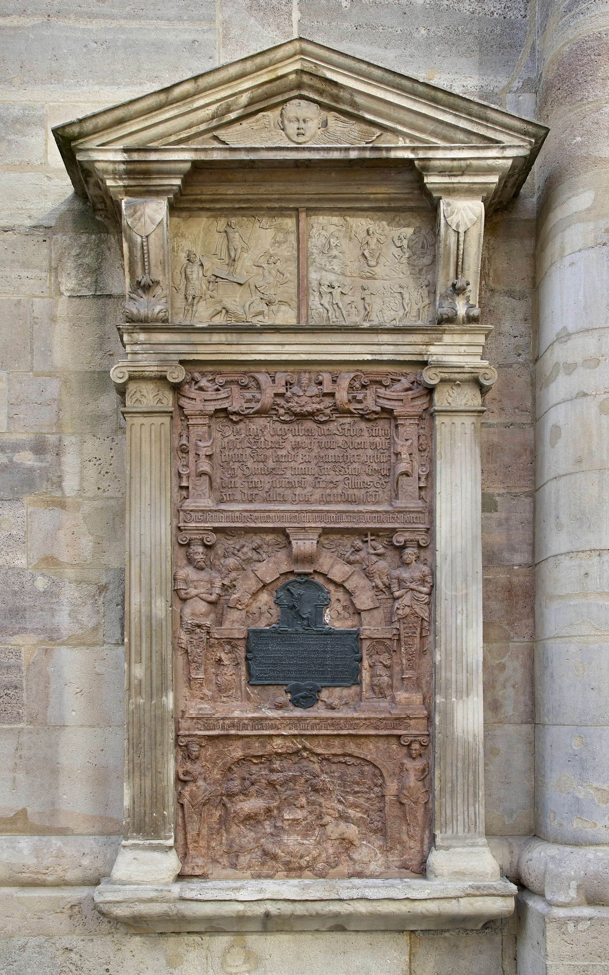 Epitaph outside St Stephen's cathedral, Vienna, Austria.